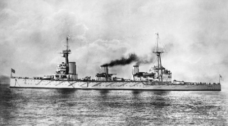 AWM caption: FIRTH OF FORTH, SCOTLAND. C.1915-02. PORT BROADSIDE VIEW OF THE BATTLECRUISER HMAS AUSTRALIA (I) AS FLAGSHIP OF THE 2ND BATTLECRUISER SQUADRON, GRAND FLEET. THE SHIP IS FLYING THE FLAG OF A VICE ADMIRAL AT THE FOREPEAK INDICATING THAT THE PHOTOGRAPH DATES FROM BETWEEN 1915-02-08, WHEN VICE ADMIRAL SIR GEORGE PATEY RN COMMANDED THE SQUADRON, AND 1915-03-07, WHEN HE WAS RELIEVED BY REAR ADMIRAL W.C. PAKENHAM RN. THE SHIP HAS HAD A RANGE FINDER POSITION FITTED ABOVE HER FORE CONTROL TOP AND A DIRECTOR CONTROL TOWER FITTED BELOW IT, AS WELL AS ADDITIONS TO HER FORWARD SUPERSTRUCTURE.